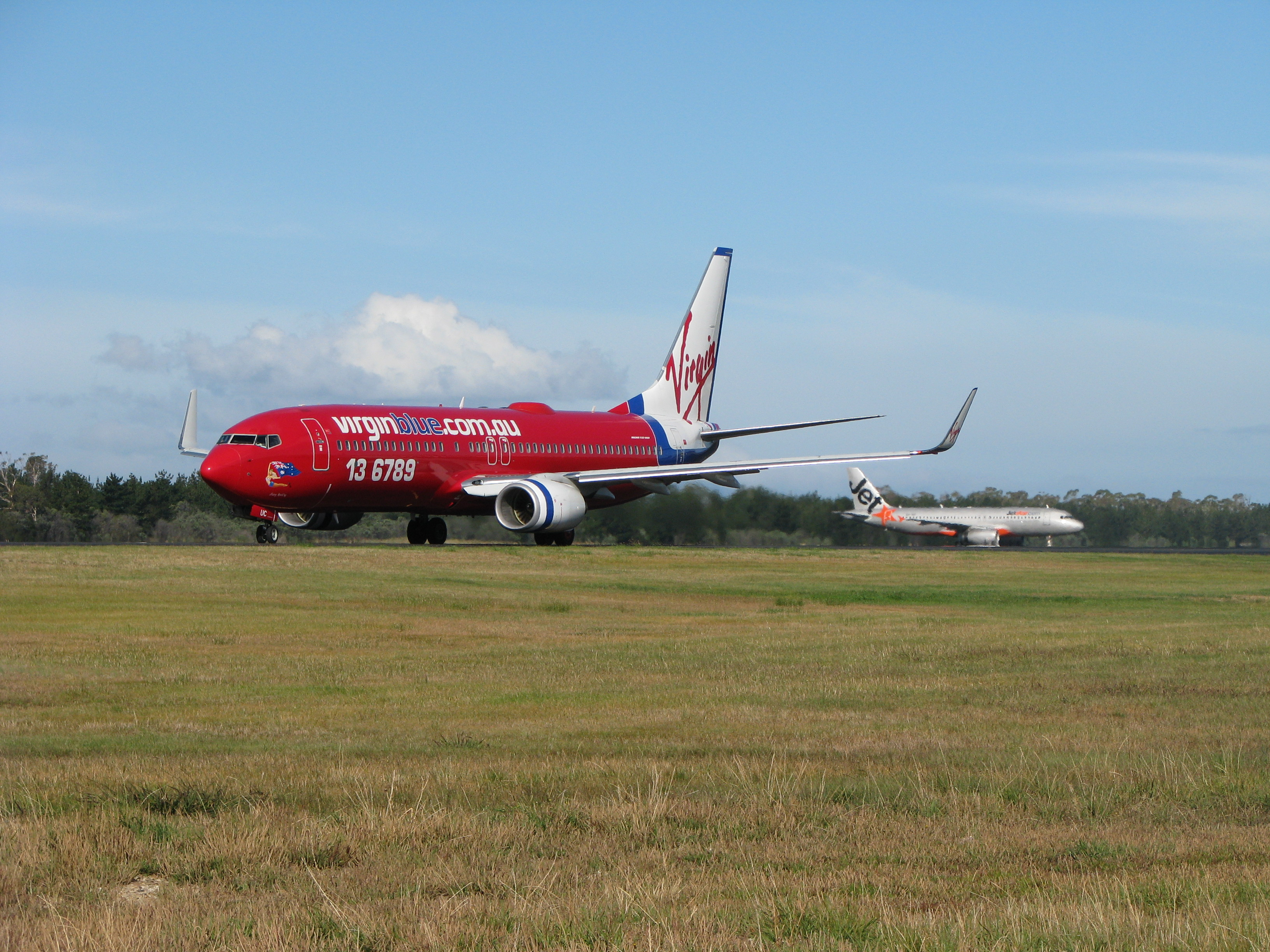 Virgin Blue Boeing 737-800 and Jetstar Airbus A320 taxiing at Hobart Airport